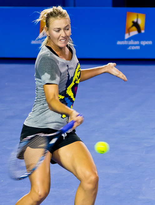 Maria Sharapova at the 2012 Australian Open